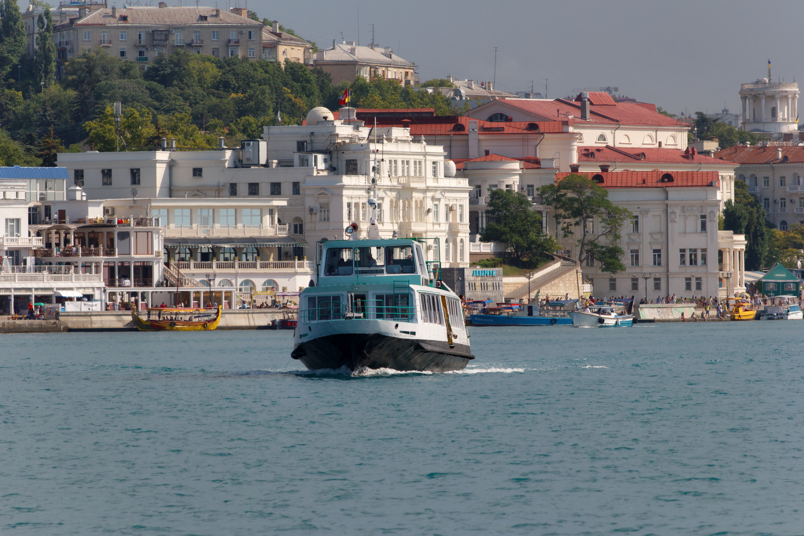 Sevastopol. Type 1438 passenger ship